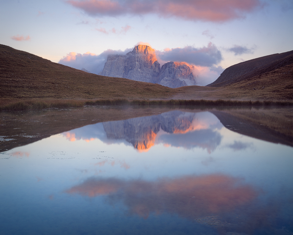 A classic view from a well know location (lot of photographers there) Fuji Velvia 50 1 sec f22 1/2 Rodenstock 150mm F5.6 + Lee 0.6 Hard